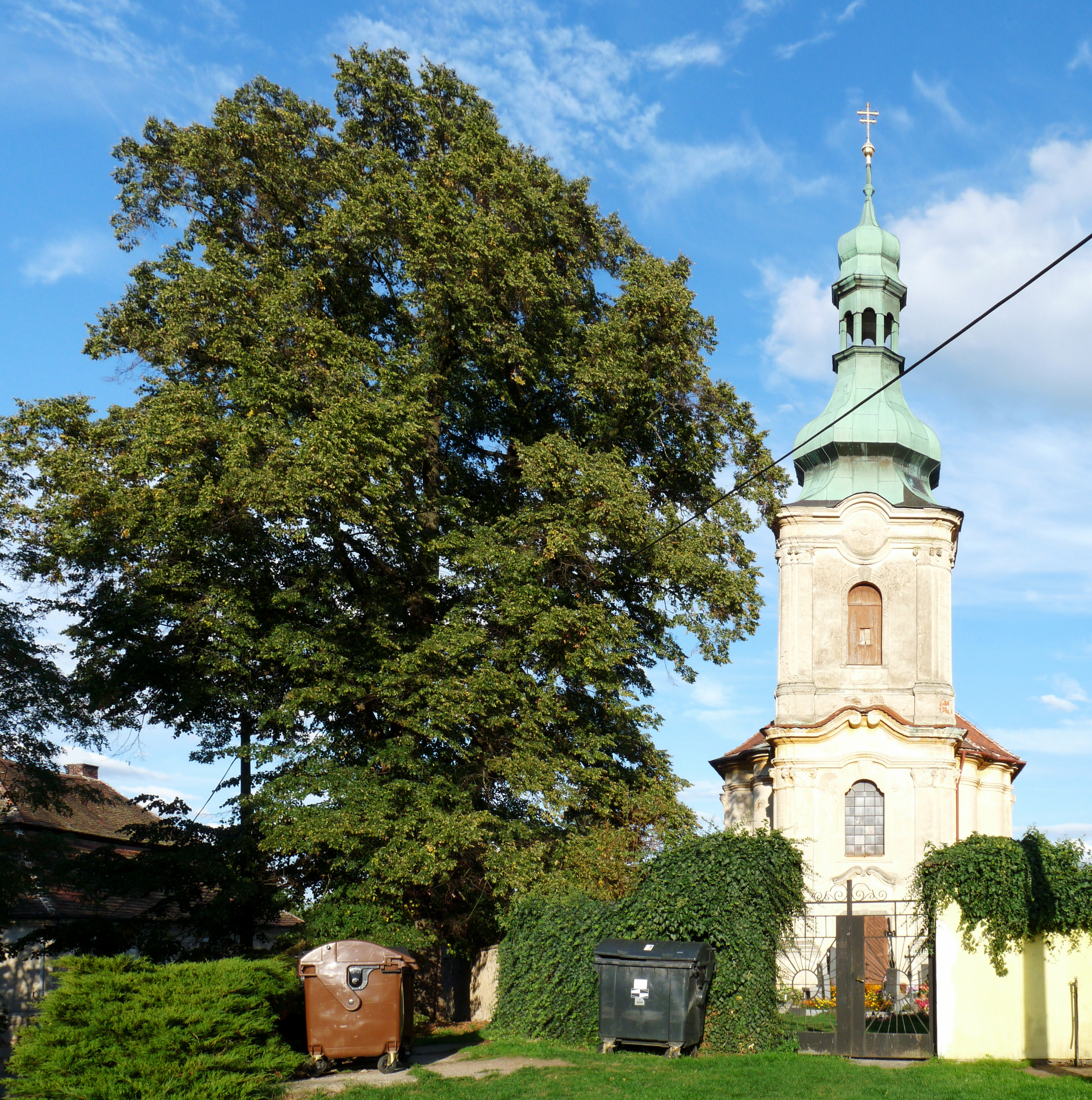 Tilia at the church in the village of Maršovice,Benešov District, Central Bohemian Region, Czech Republic.